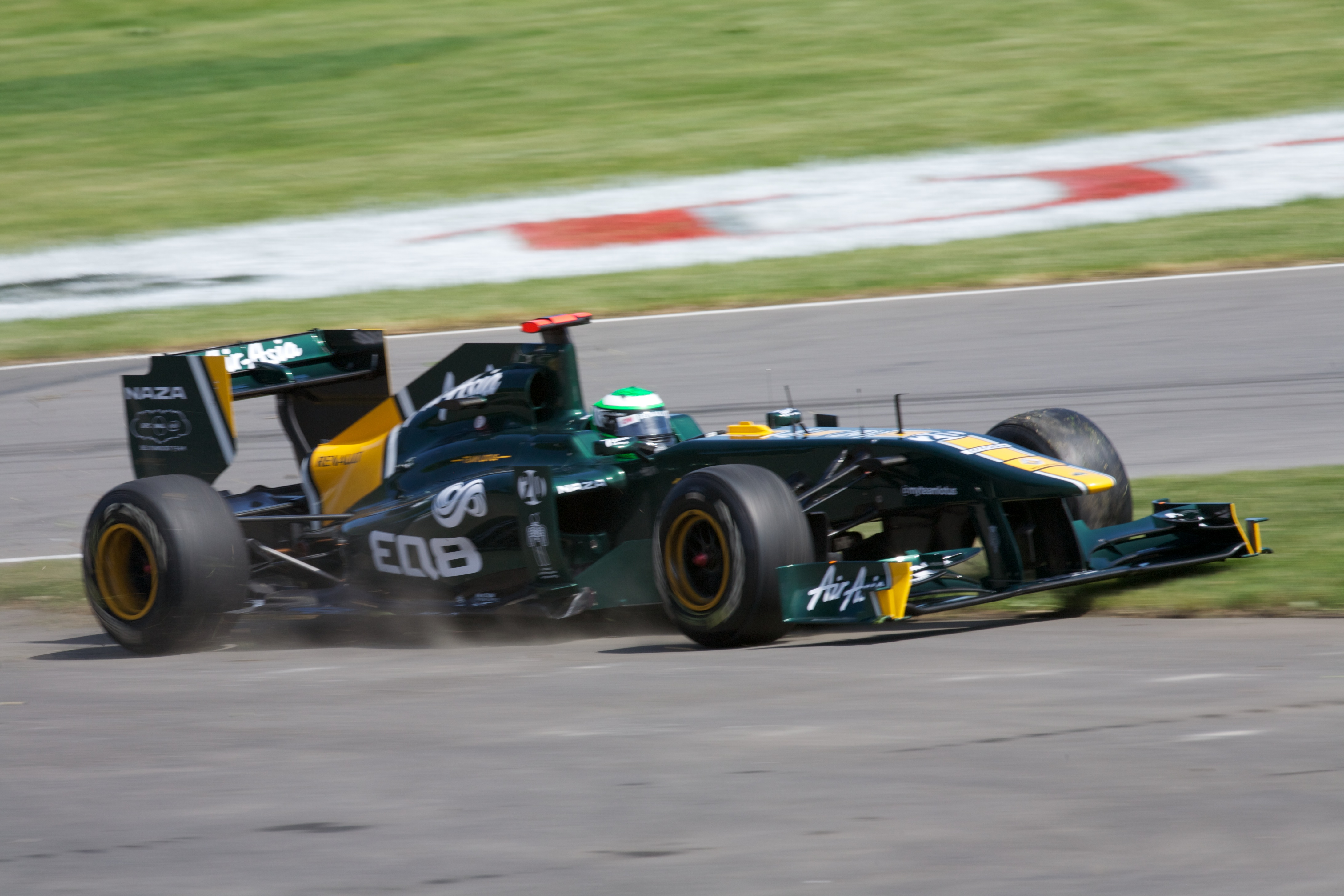 2011 Canadian Grand Prix